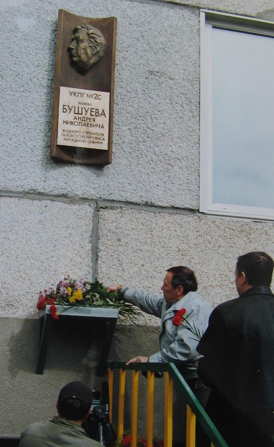 Церемония открытия мемориальной доски А. Н. Бушуеву - генеральному директору уренгойского филиала ОАО «Стройтрансгаз» на УКПГ-2С "Заполярное".